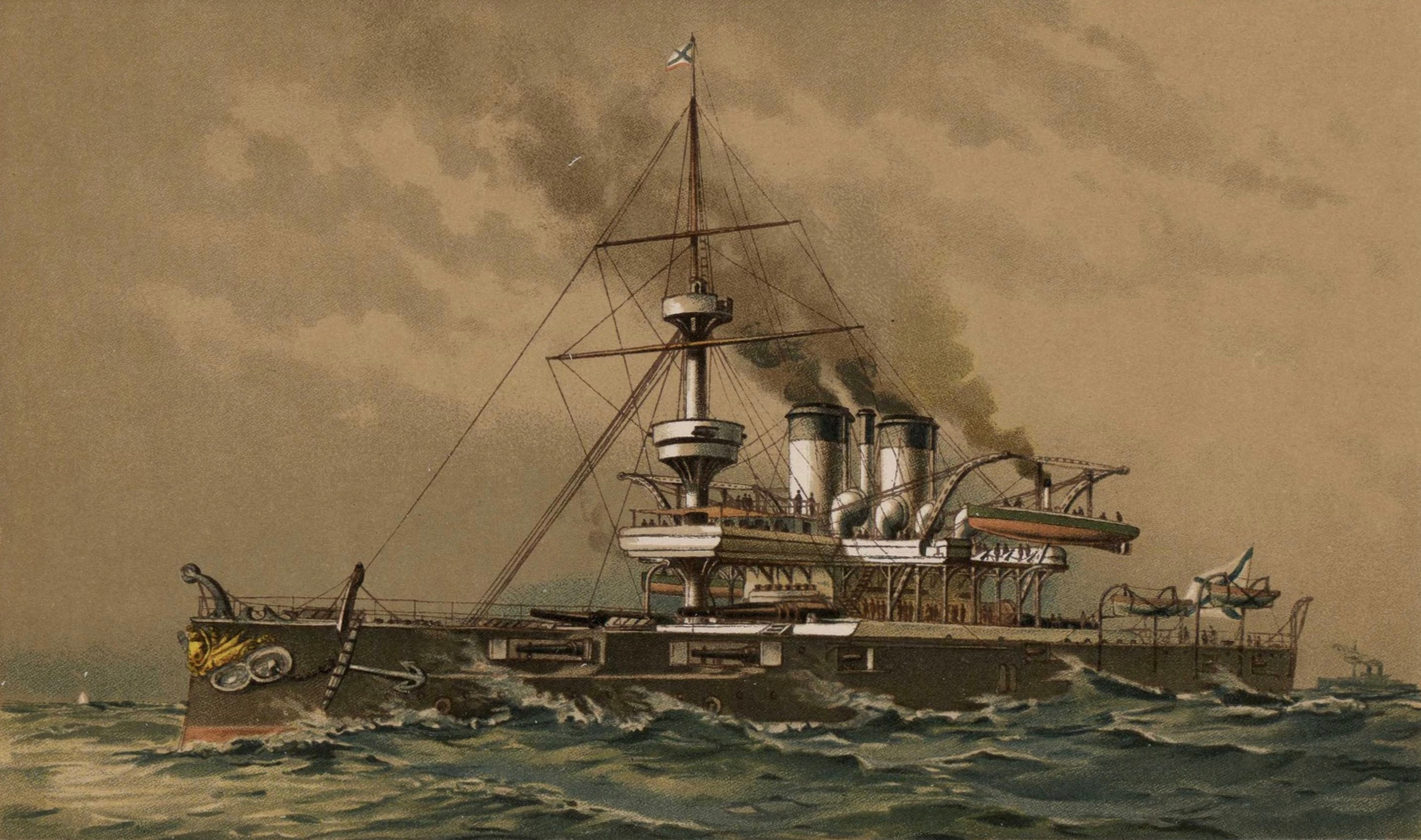 Sinop (ironclad warship)